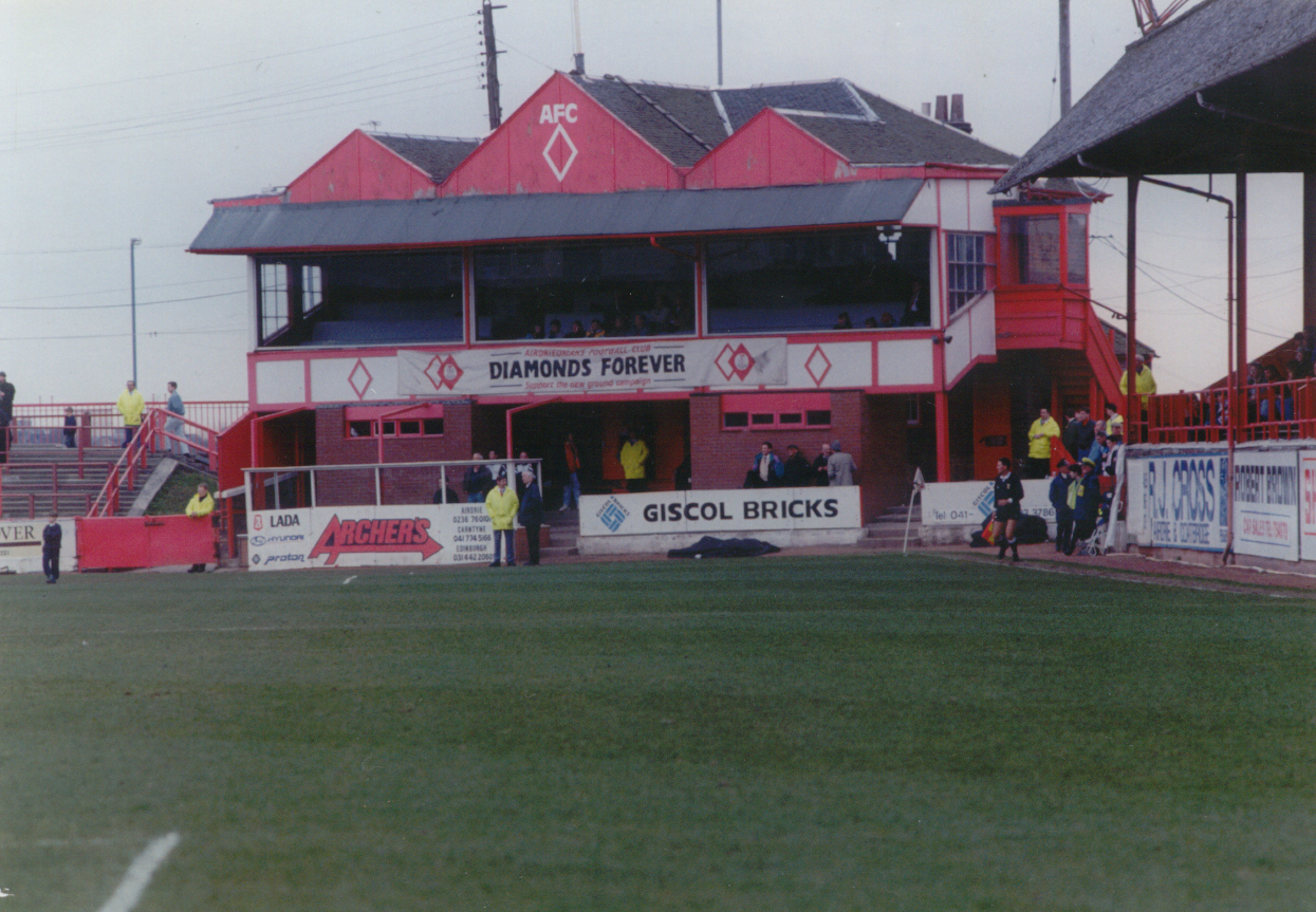 Picture of Broomfield Park.